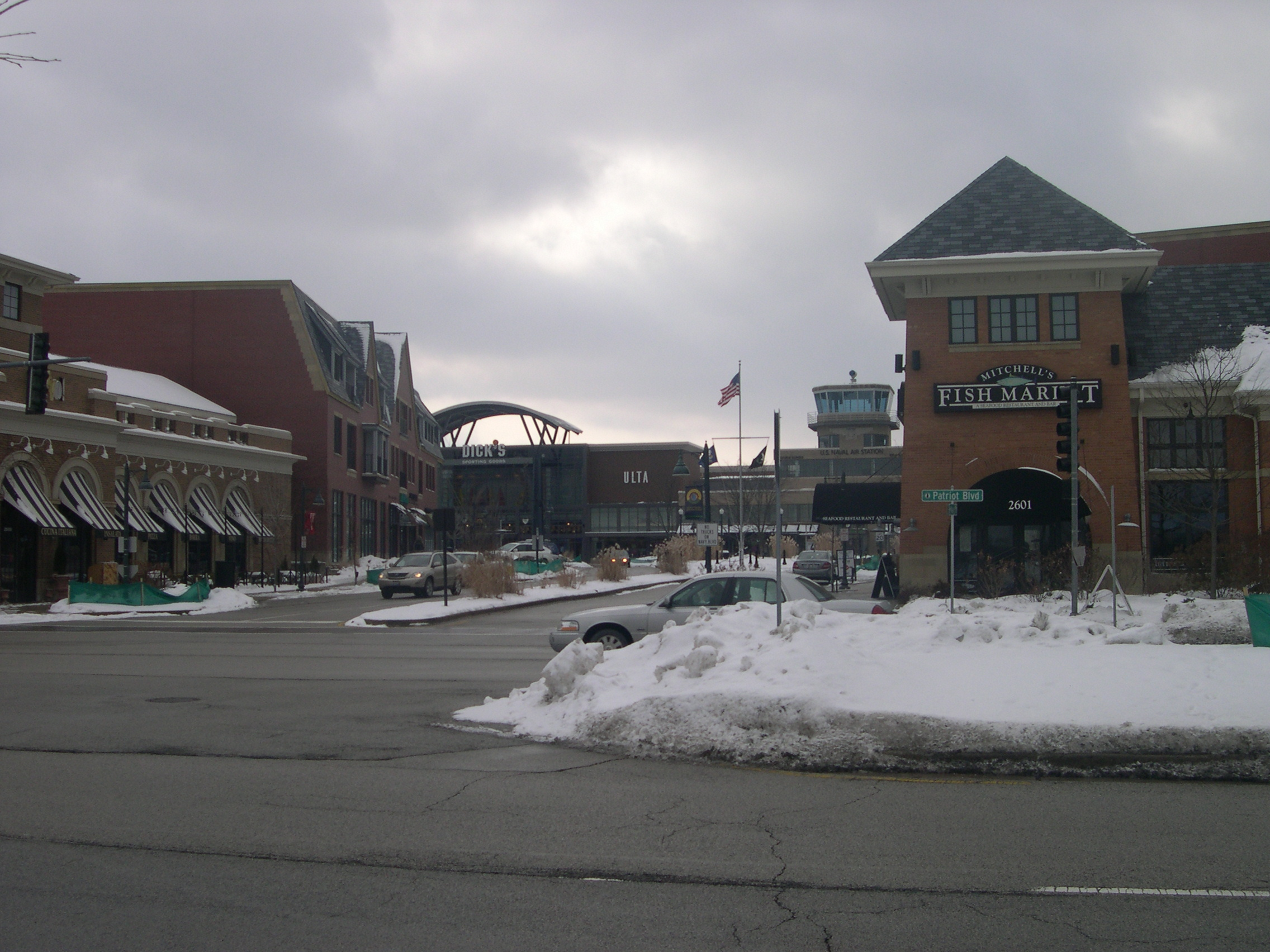 Glenview, Illinois, USA